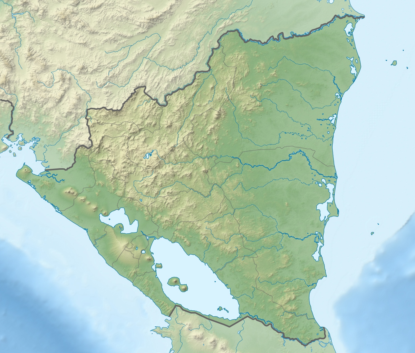 Physical Location map Nicaragua with Departamentos, Equirectangular projection, N/S stretching 100 %. Geographic limits of the map: N: 15.2° N S: 10.6° N W: -87.9° E E: -82.5° E